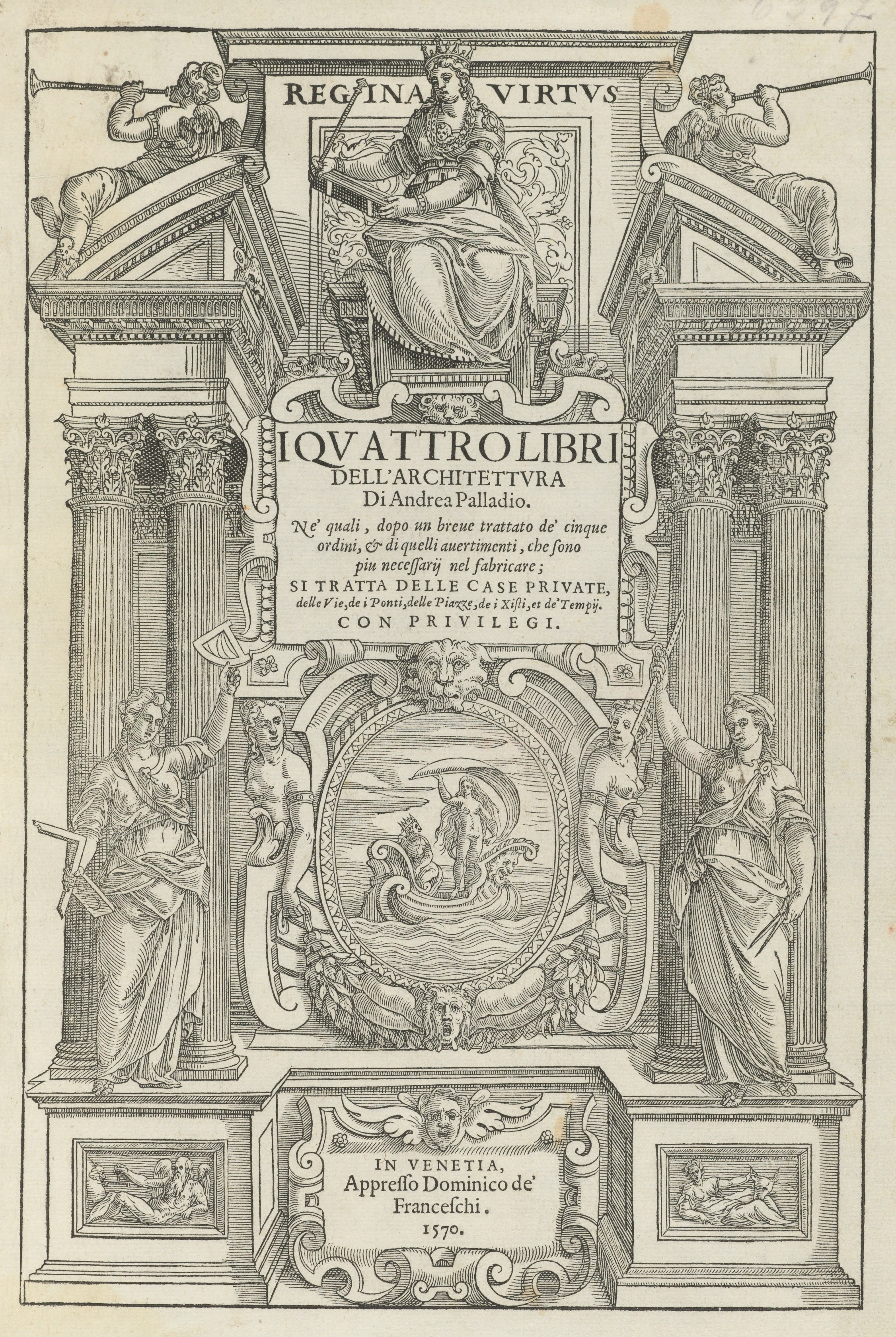 Frontispiece, Typ 525 70.671, Houghton Library, Harvard University